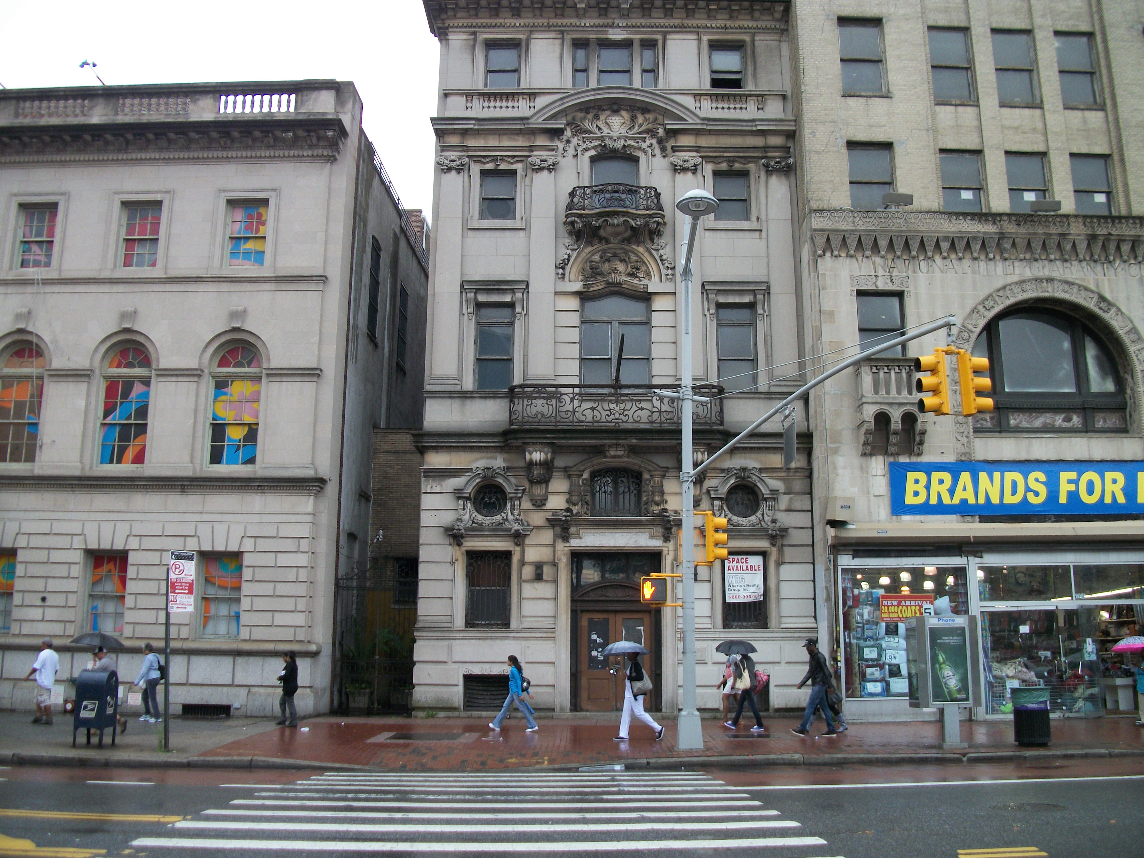 Full view of the old Jamaica Savings Bank Building at 161-02 Jamaica Avenue in Jamaica, Queens, New York City. This was taken from the Capital One Bank Building across the street on the northeast corner of Jamaica Avenue and 161st Street.